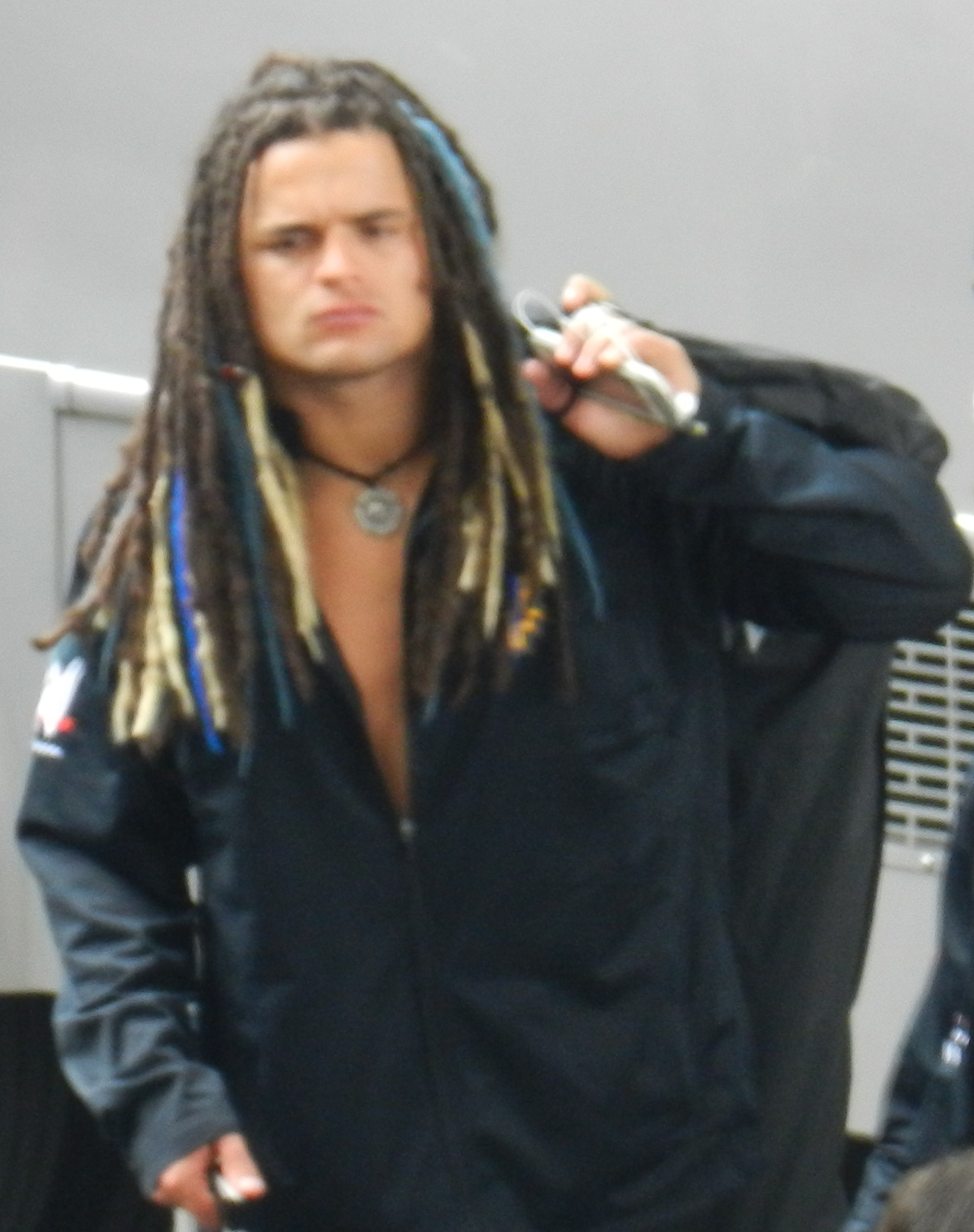 CJ Parker at WWE Wrestlemania 30 in New Orleans on April 6, 2014. Photo by Brian "MonkeyMan" Richard . Cropped from original.